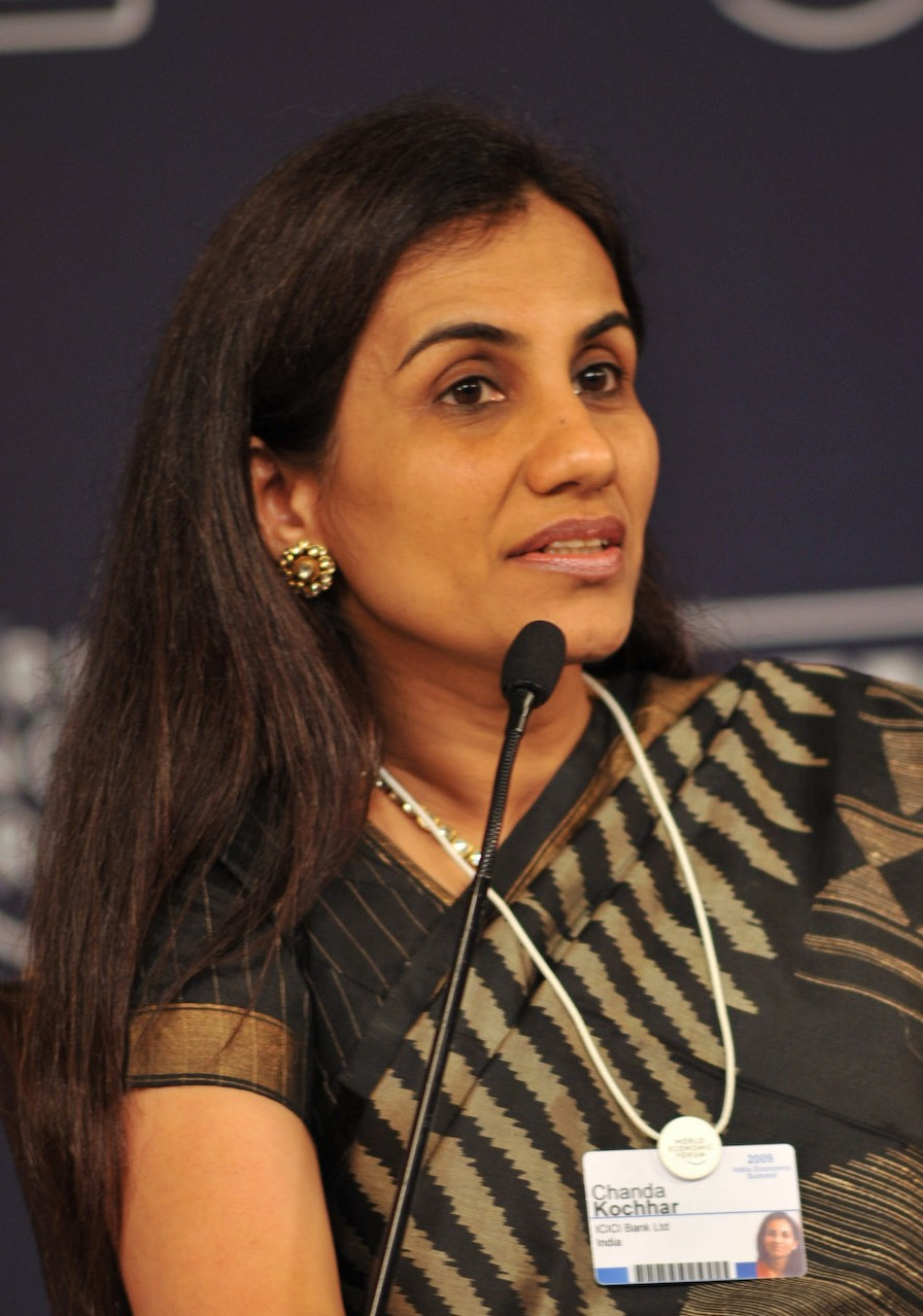 Chanda Kochhar, Indian banker and businesswoman, speaking at the closing Plenary Session: A Roadmap for India's Next Generation of Growth during the World Economic Forum's India Economic Summit 2009 held in New Delhi.